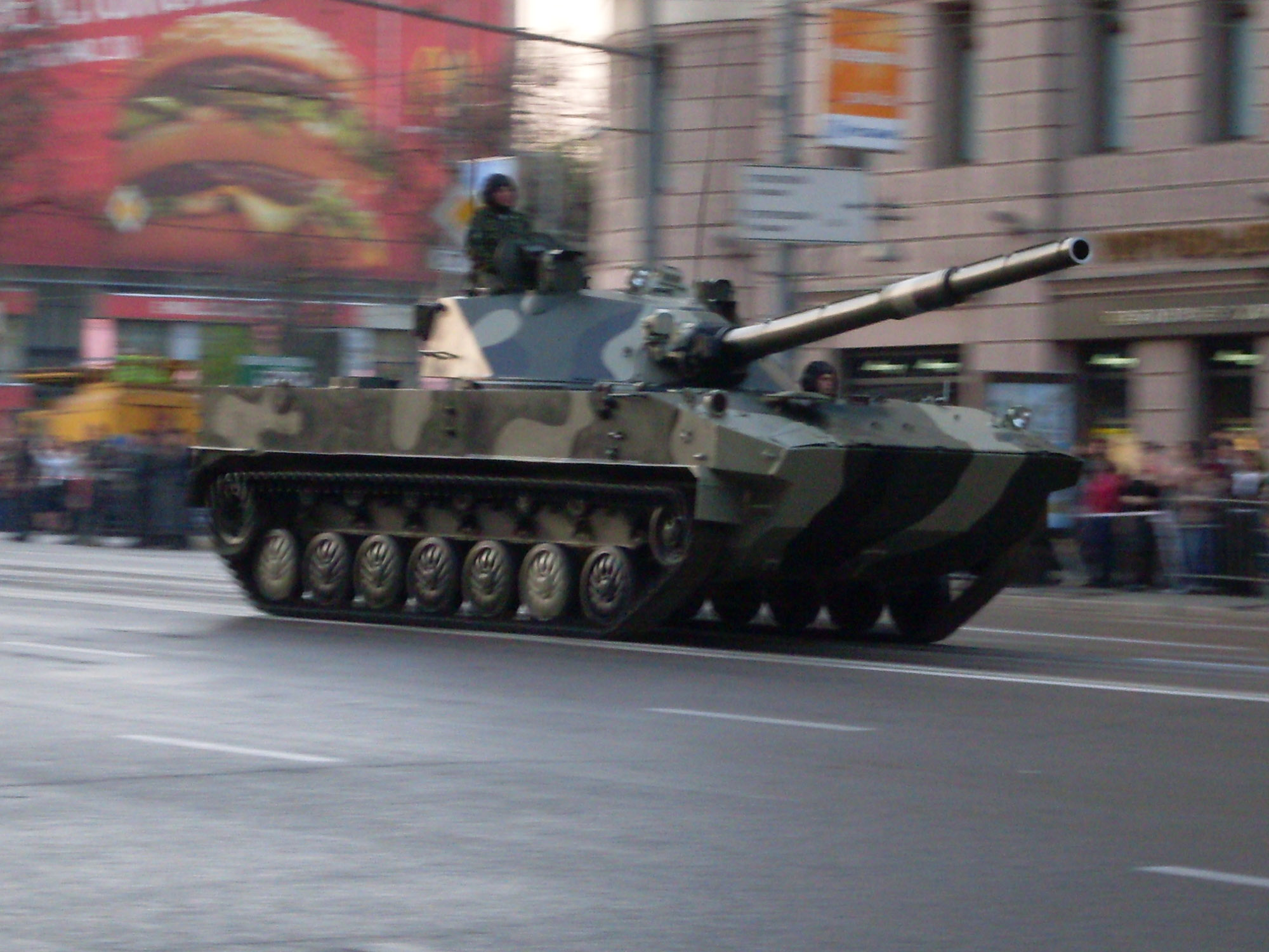 2S25 Sprut-SD tank destroyer during a rehearsal for a parade in Moscow.